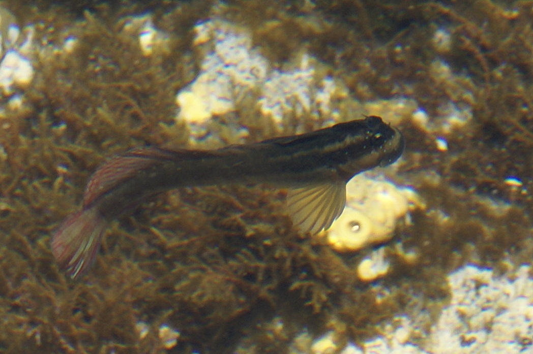 Blenniella cyanostigma in a pool on the shore of Réunion island